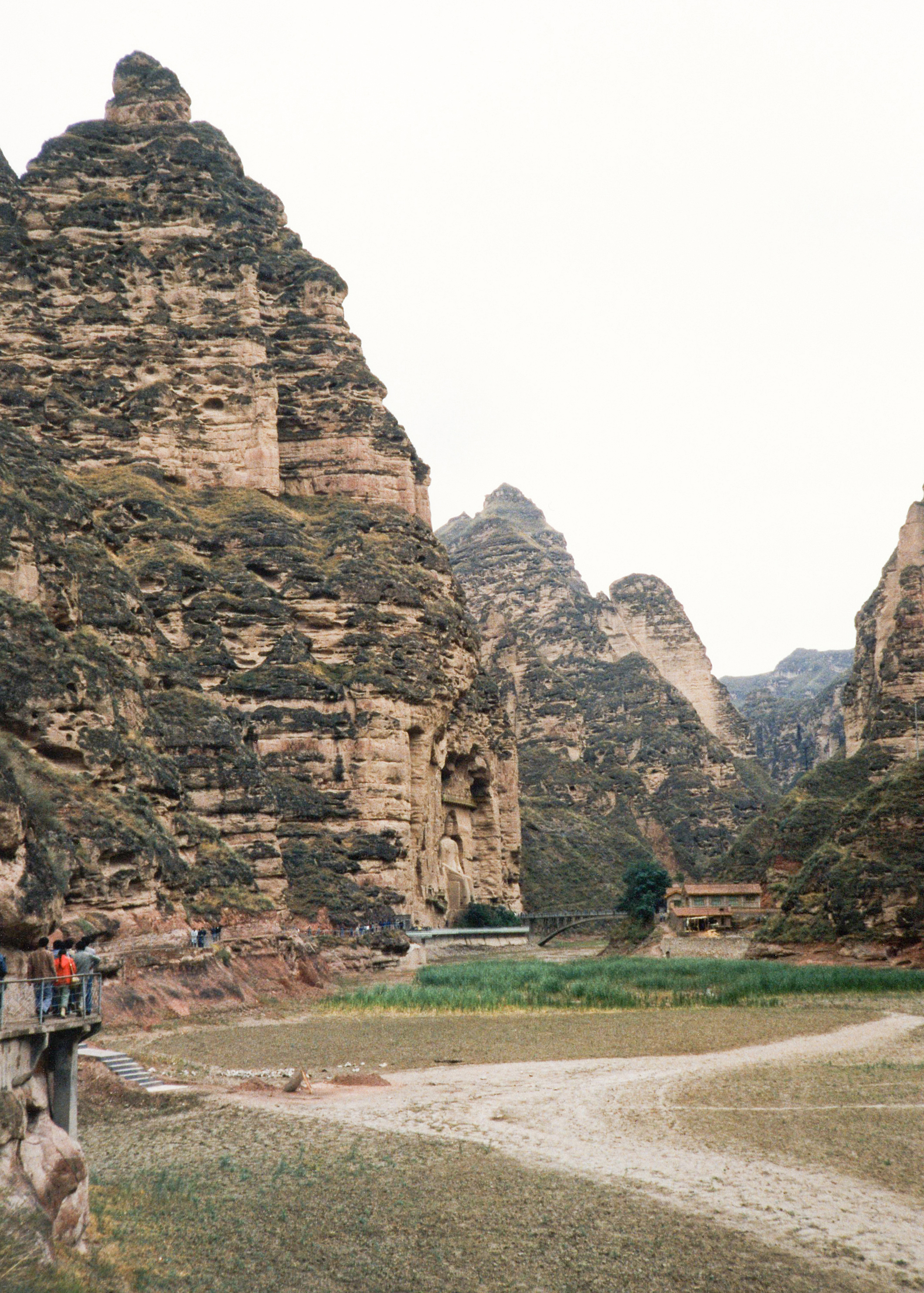 Bingling Temple, Gansu, China